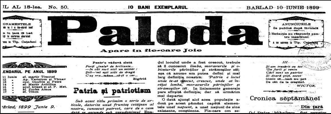 Logo of the Romanian newspaper Paloda, as used in 1899